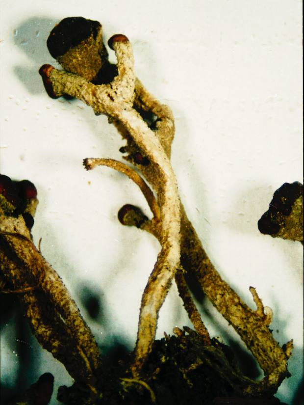 Cladonia rei Schaerer, 1823 [Synonyms: Cladonia subulata (L.) Weber ex F.H. Wigg., 1780 (see Spier & Aptroot 2007); Cladonia nemoxyna (Ach.) Arnold, 1888] (photograph of a herbarium specimen taken through a dissecting microscope (x6) showing upper portions of podetia) Growing on soil of an old apple orchard at the Maryland Ornithological Society Sanctuary at Carey Run, 3.5 miles WNW of Frostburg, Garrett County, Maryland, USA; collected and identified by B. Ball and A. Norden (Cladonia nemoxyna, No. L-74, 1 Jan 1973), annotated by Allen C. Skorepa; specimen is now in the Lichen Herbarium of the New York Botanical Garden.